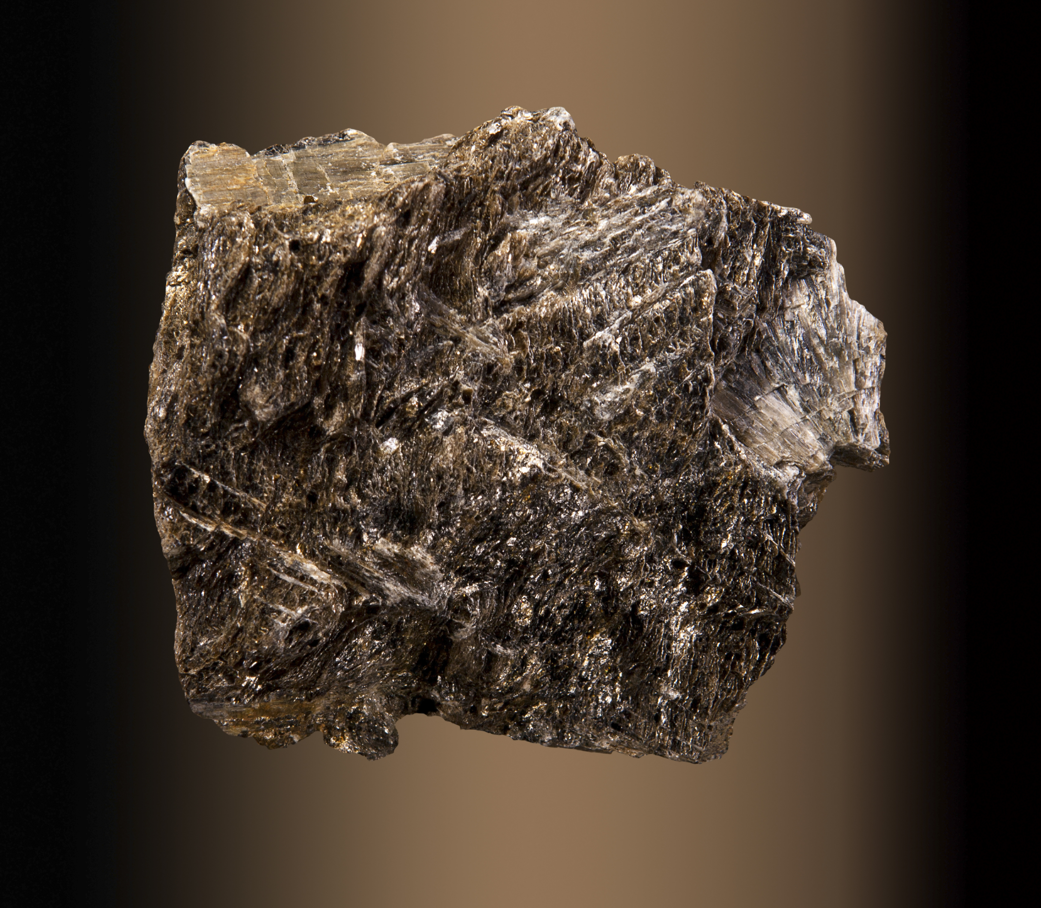 Anthophyllite - Kopparberg, Ljusnarsberg, Västmanland, Sweden - Size 47x43x30 mm